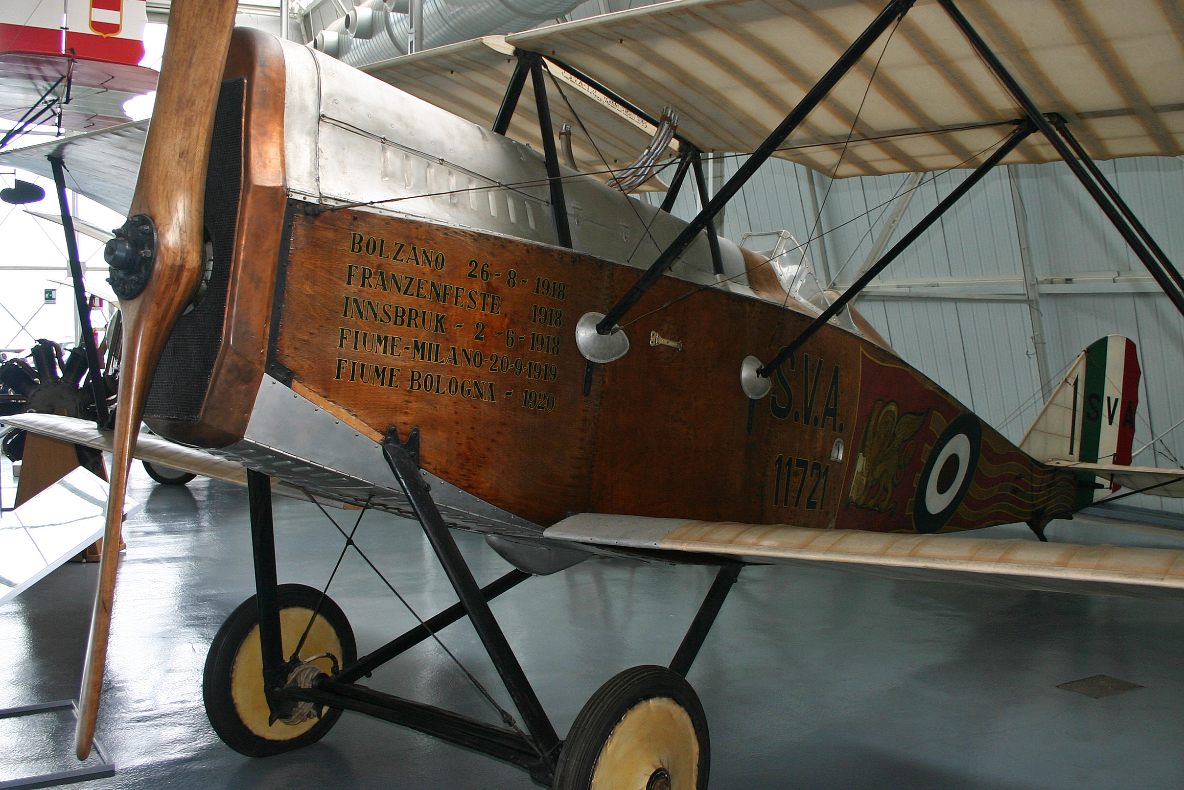 Displayed in Hangar TROSTER. Took part in leaflet drop over Austria, 9th August 1918.